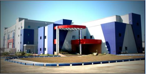 I clicked this picture